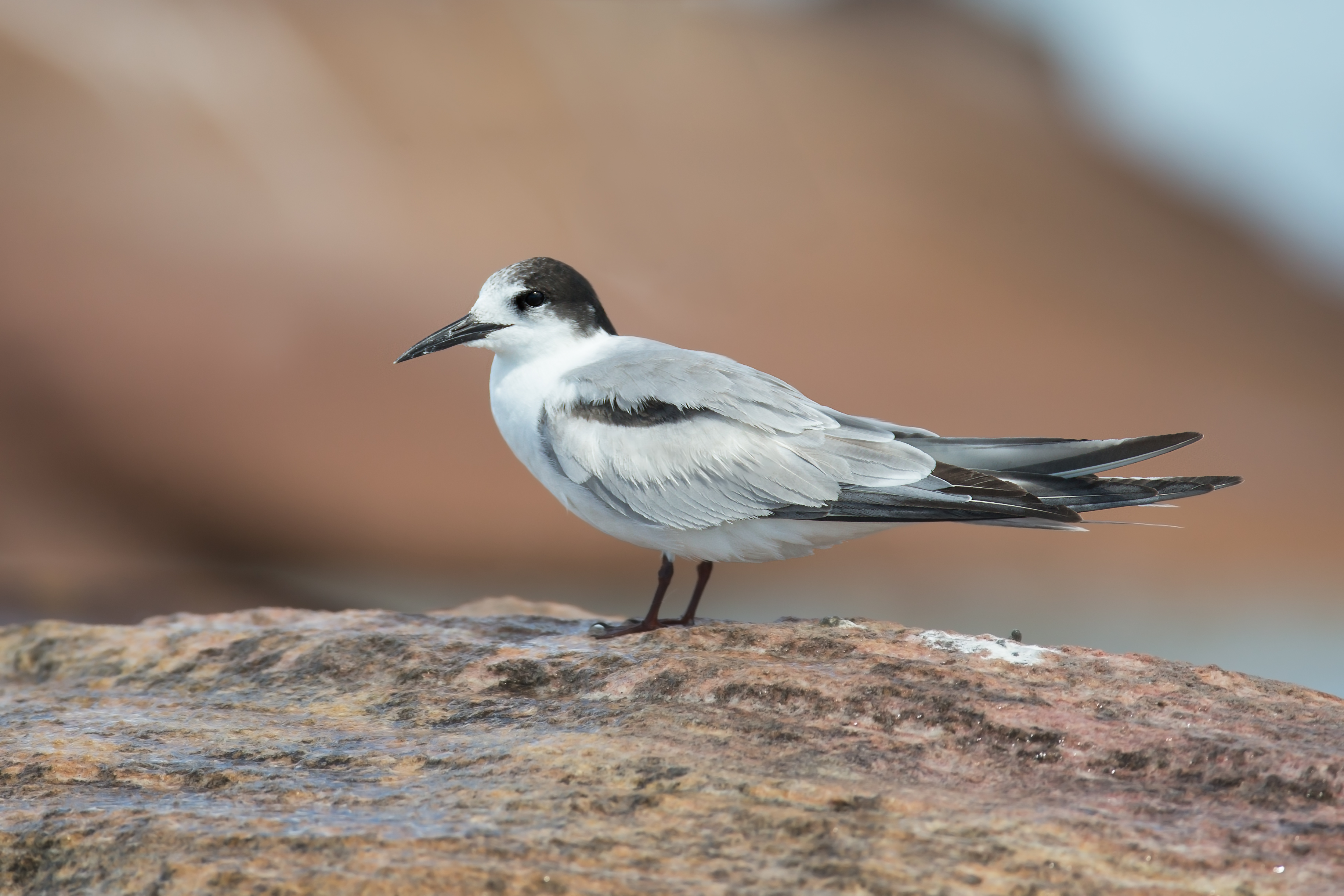 Common Tern (Sterna hirundo), non-breeding plumage, Boat Harbour, New South Wales, Australia